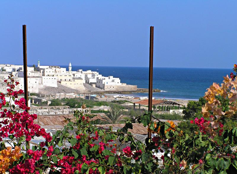 Merca (Somali: Marka, Arabic: مركة) is an ancient port city on the coast of southern Somalia, facing the Indian Ocean. It is the main town in the Shabeellaha Hoose region, and is located approximately 70 km (43 mi) southwest of the nation's capital, Mogadishu.